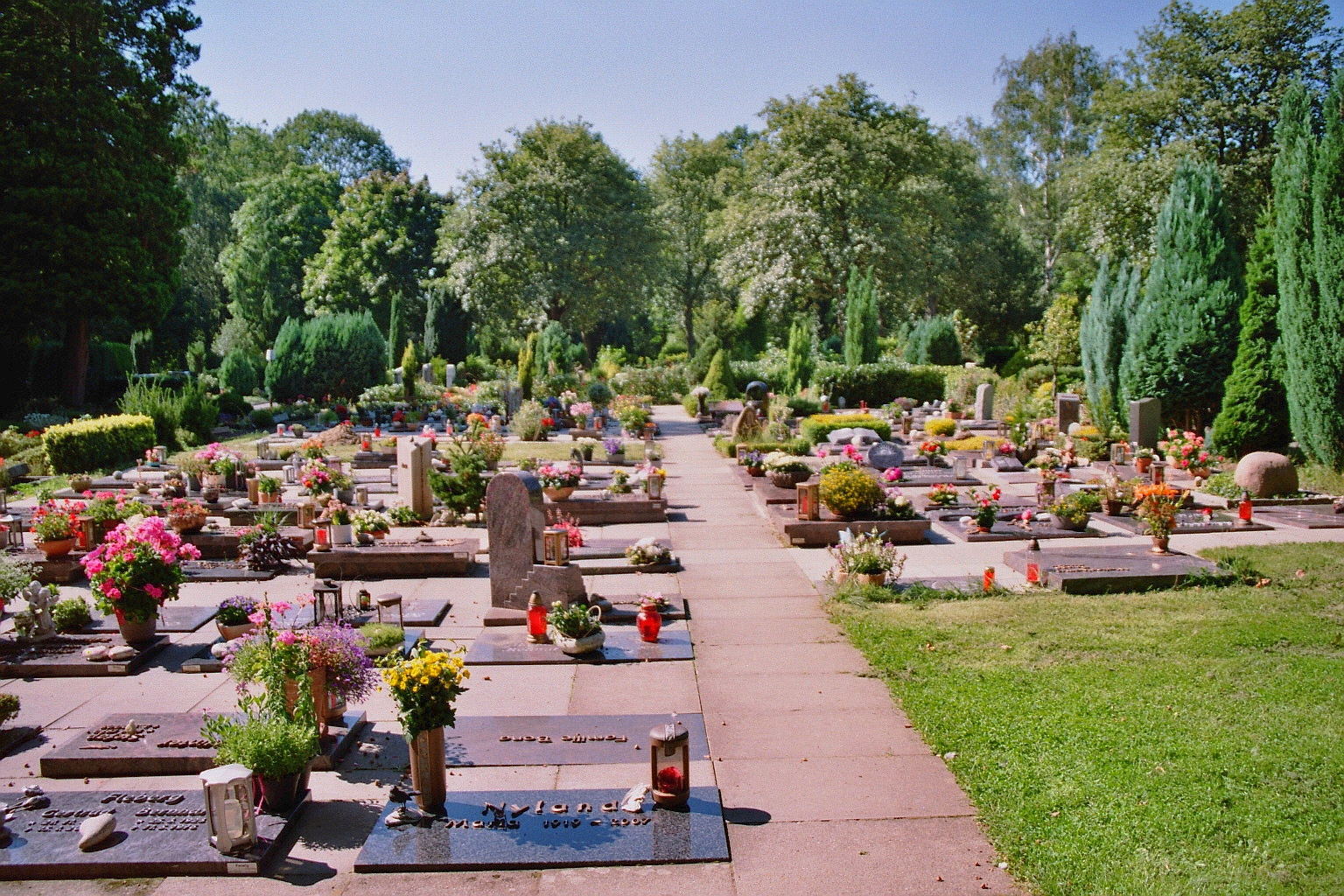 Central Cemetery (Zentralfriedhof) in Ibbenbüren, Kreis Steinfurt, North Rhine-Westphalia, Germany.